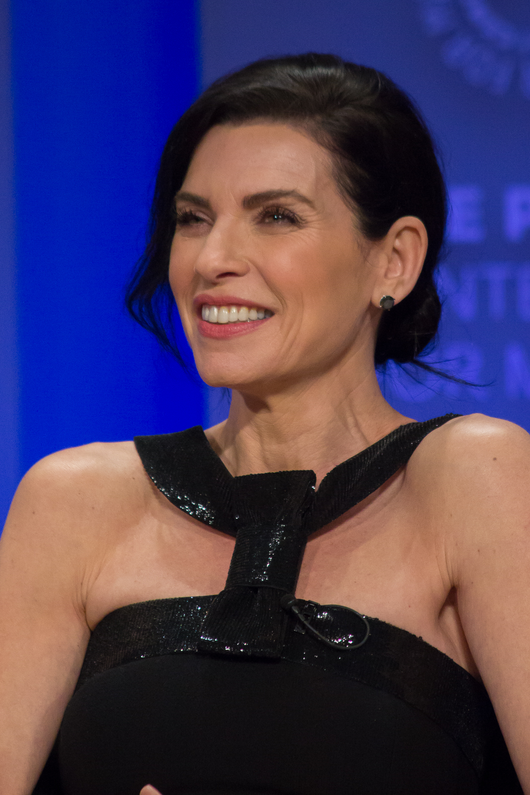 Actress Julianna Margulies at the PaleyFest 2015 Panel for The Good Wife